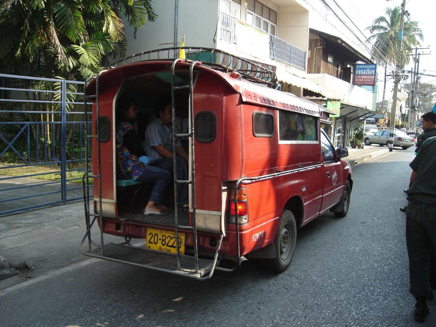 songthaews (the latter known locally as rot daeng, literally "red car") - Chiang Mai, Thailand รถสองแถว / รถแดง - เชียงใหม่